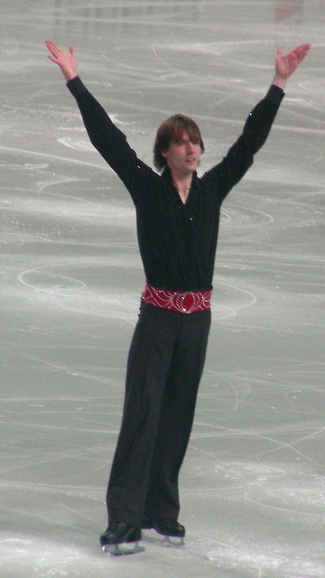 Gregor Urbas on the 2007 European Figure Skating Championships in Warsaw - free skate